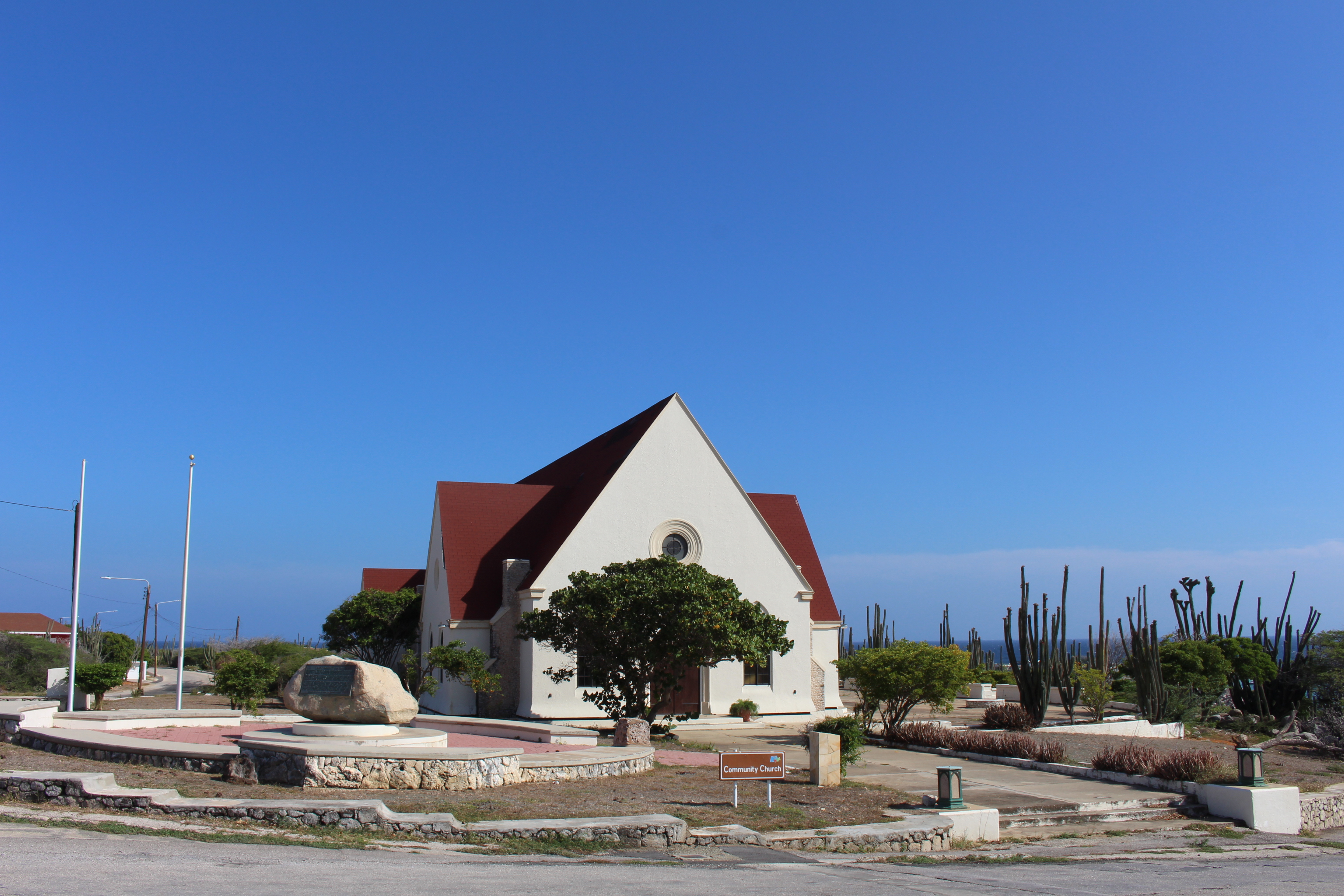 Seroe Colorado 244, San Nicolaas, Aruba. Built in 1939.